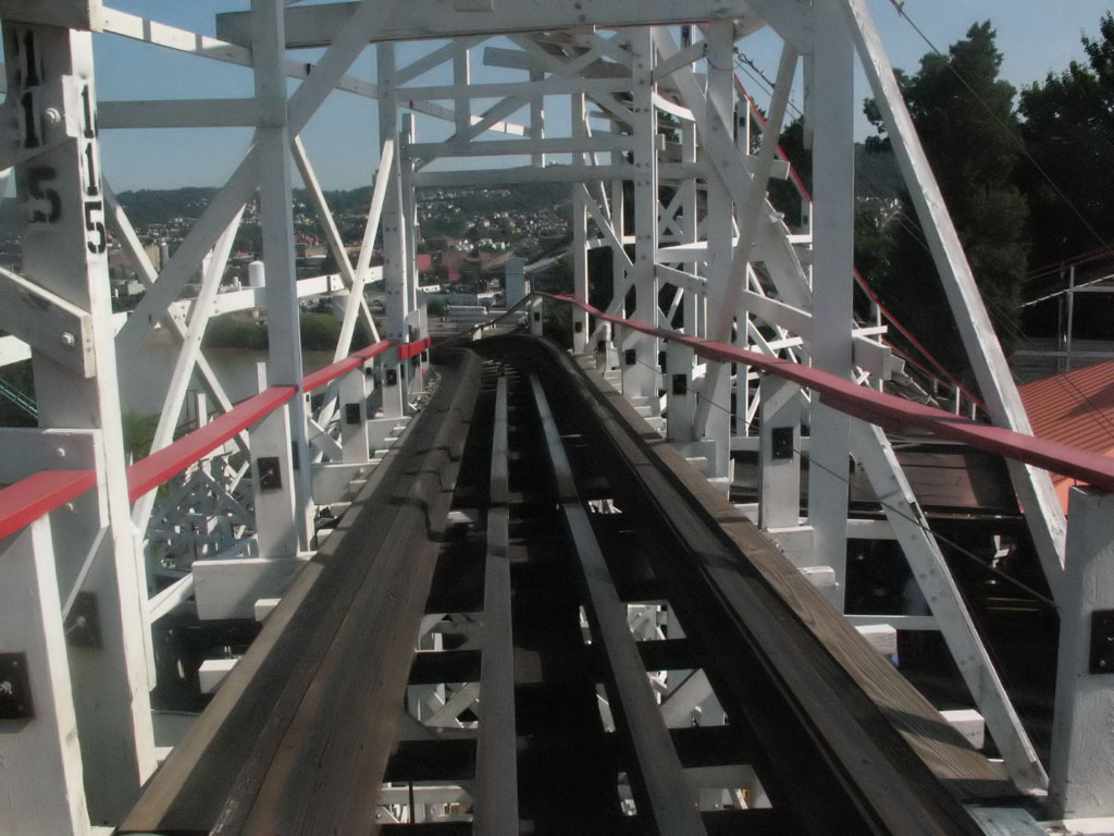 Skid brakes on the Thunderbolt at Kennywood. Taken August 2007 with permission from park's PR staff.